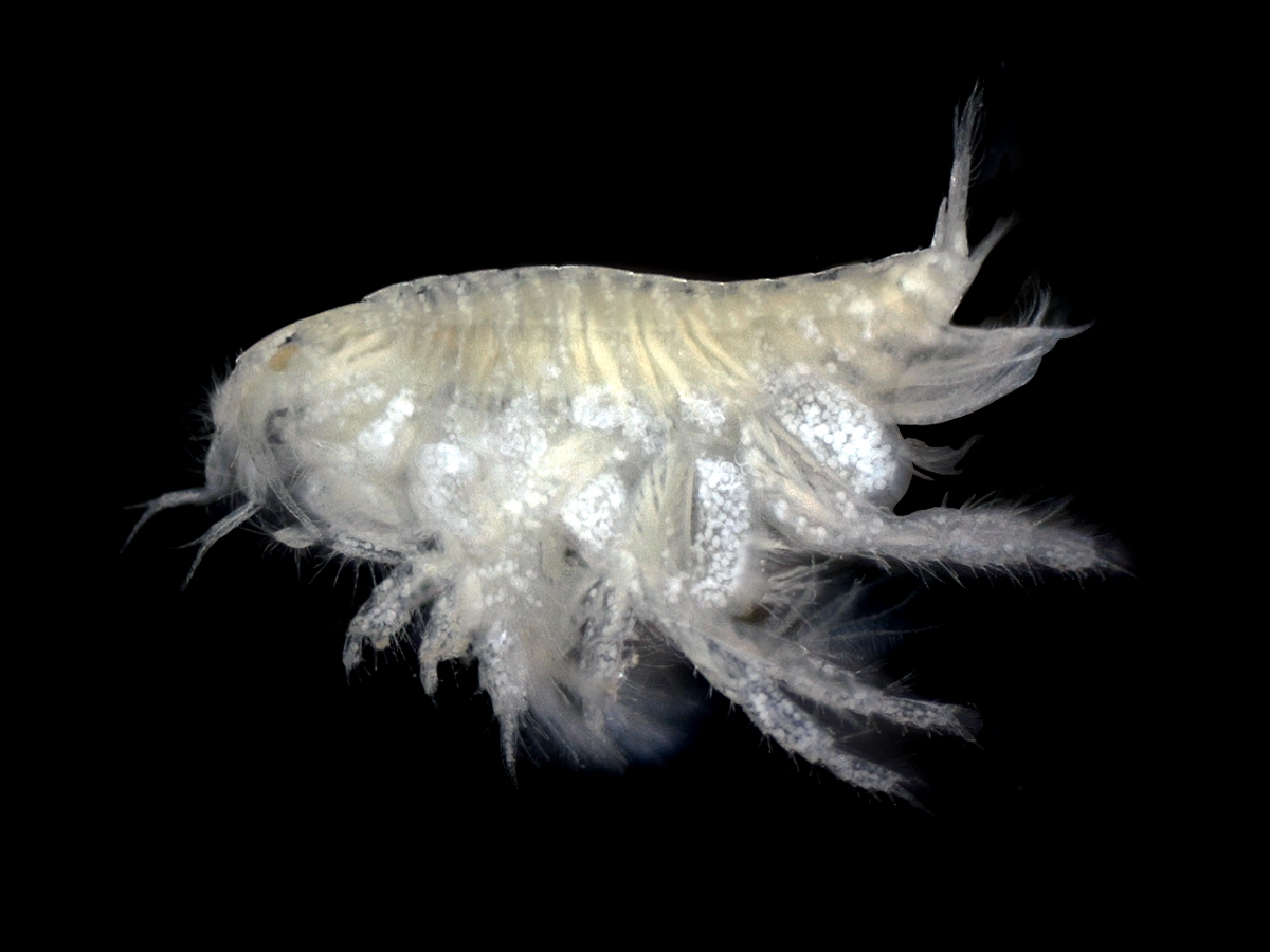 Commensal amphipod, taken with Axiocam (Zeiss) camera mounted on a Zeiss Stemi C-2000 binocular microscope. This amphipod was sampled on the Belgian Continental Shelf in 1997.